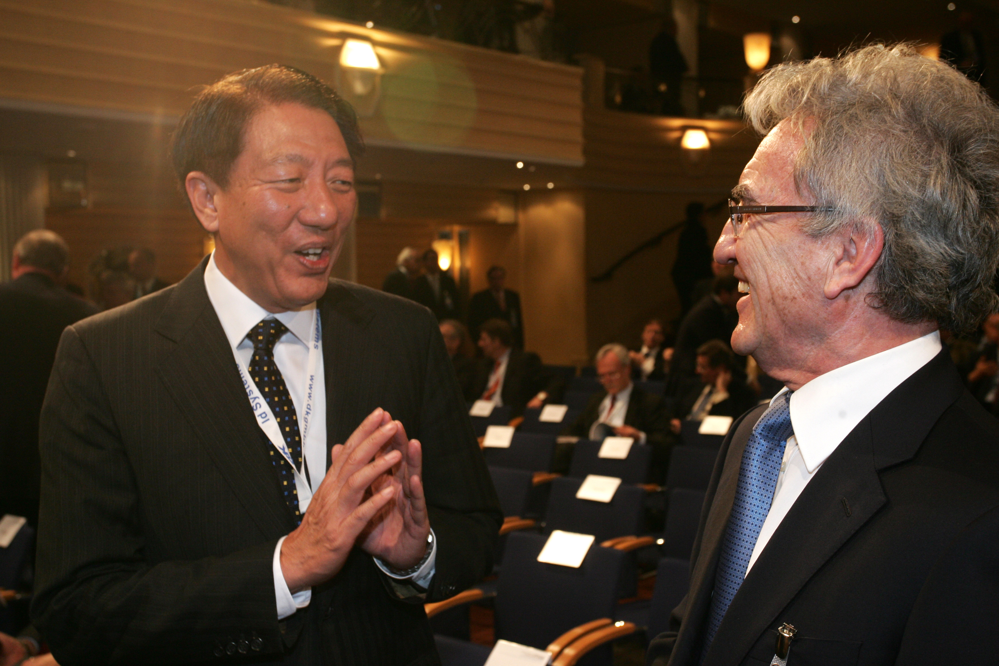 47th Munich Security Conference 2011: Chee Hean Teo (le), Deputy Prime Minister and Minister of Defense, Republic of Singapore, and Prof. Dr. Horst Teltschik (ri), Former Chairman, Munich Conference on Security Policy, Munich.